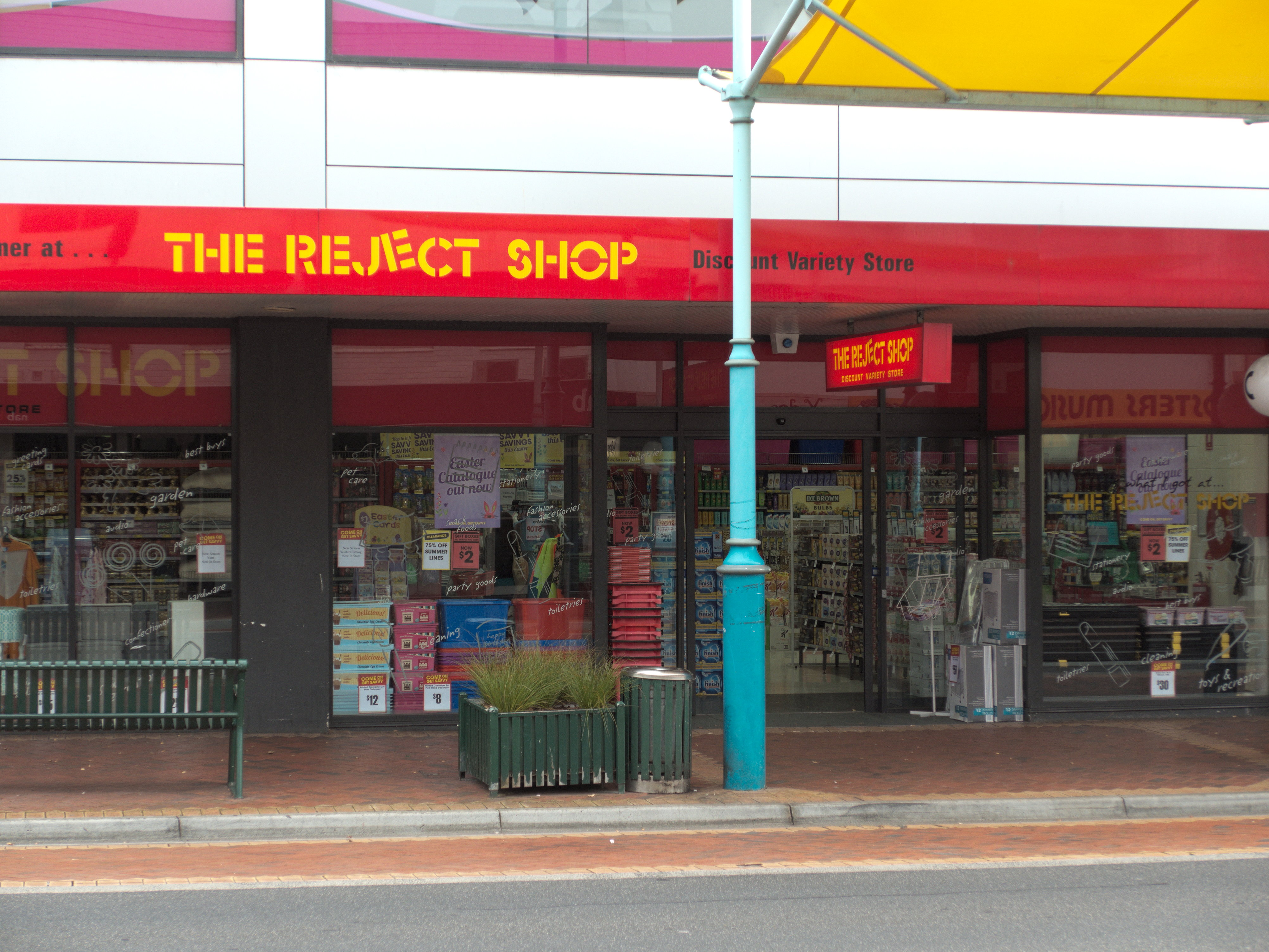 The Reject Shop in Cattley Street, Burnie, Tasmania.